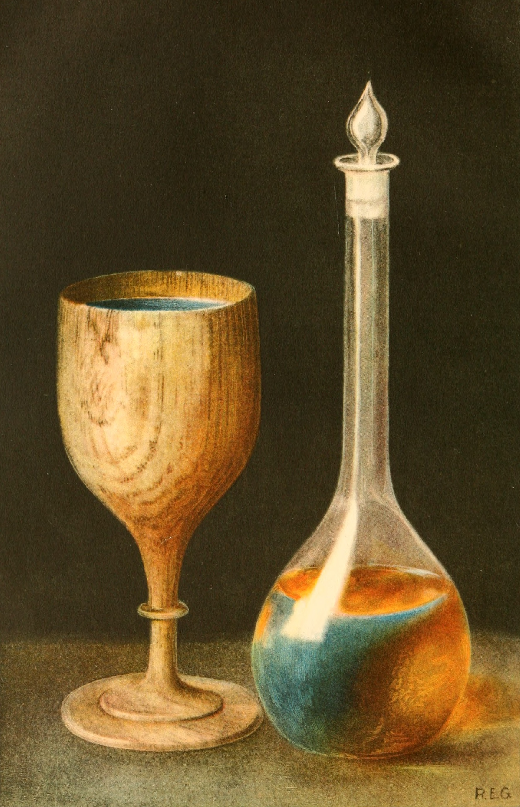 cup of Philippine lignum nephriticum, Pterocarpus indicus, and flask containing its fluorescent solution